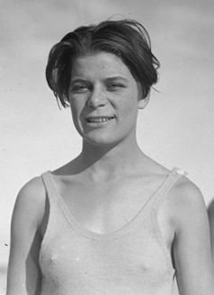 Philomena "Bonnie" Mealing, Australian Olympic swimmer